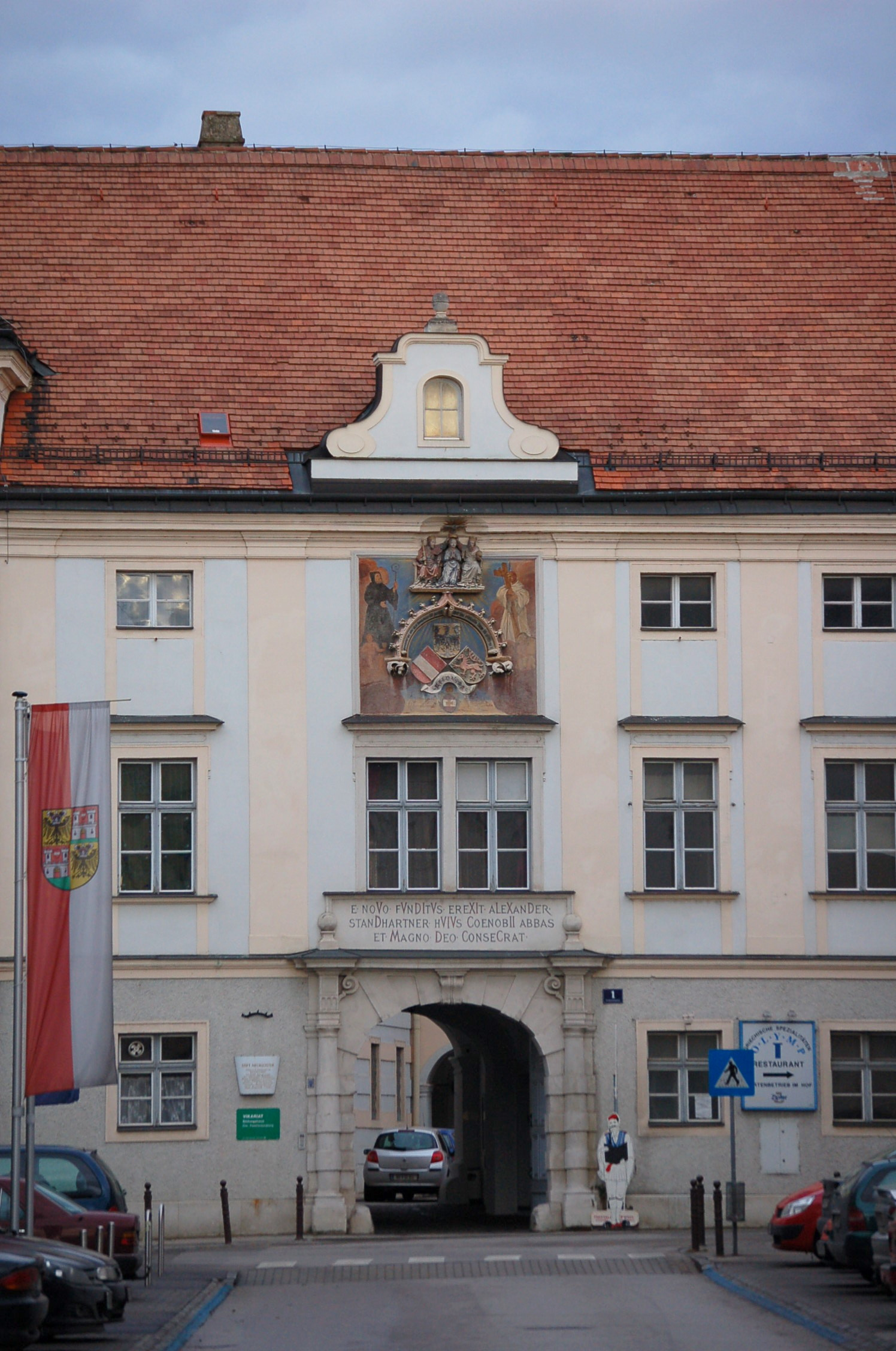 Portal of Neukloster Cistercian Abbey, Wiener Neustadt, Lower Austria